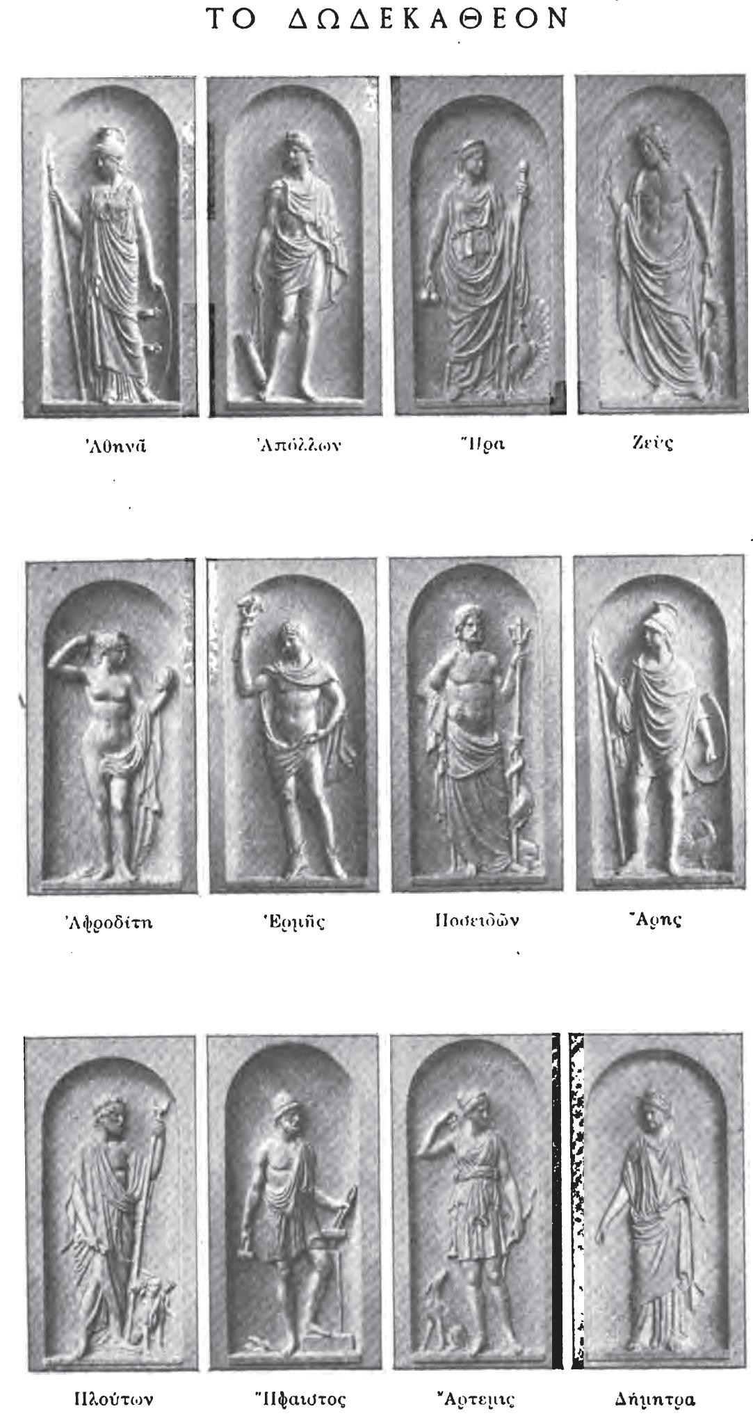 Hestia (1876) Author: Diomedes, Paulos Subject: Greek literature, Modern; Greek periodicals Publisher: [Athēnēsi : s.n. Year: 1894 Possible copyright status: NOT_IN_COPYRIGHT Language: Greek Digitizing sponsor: Google Book from the collections of: Harvard University Collection: americana]